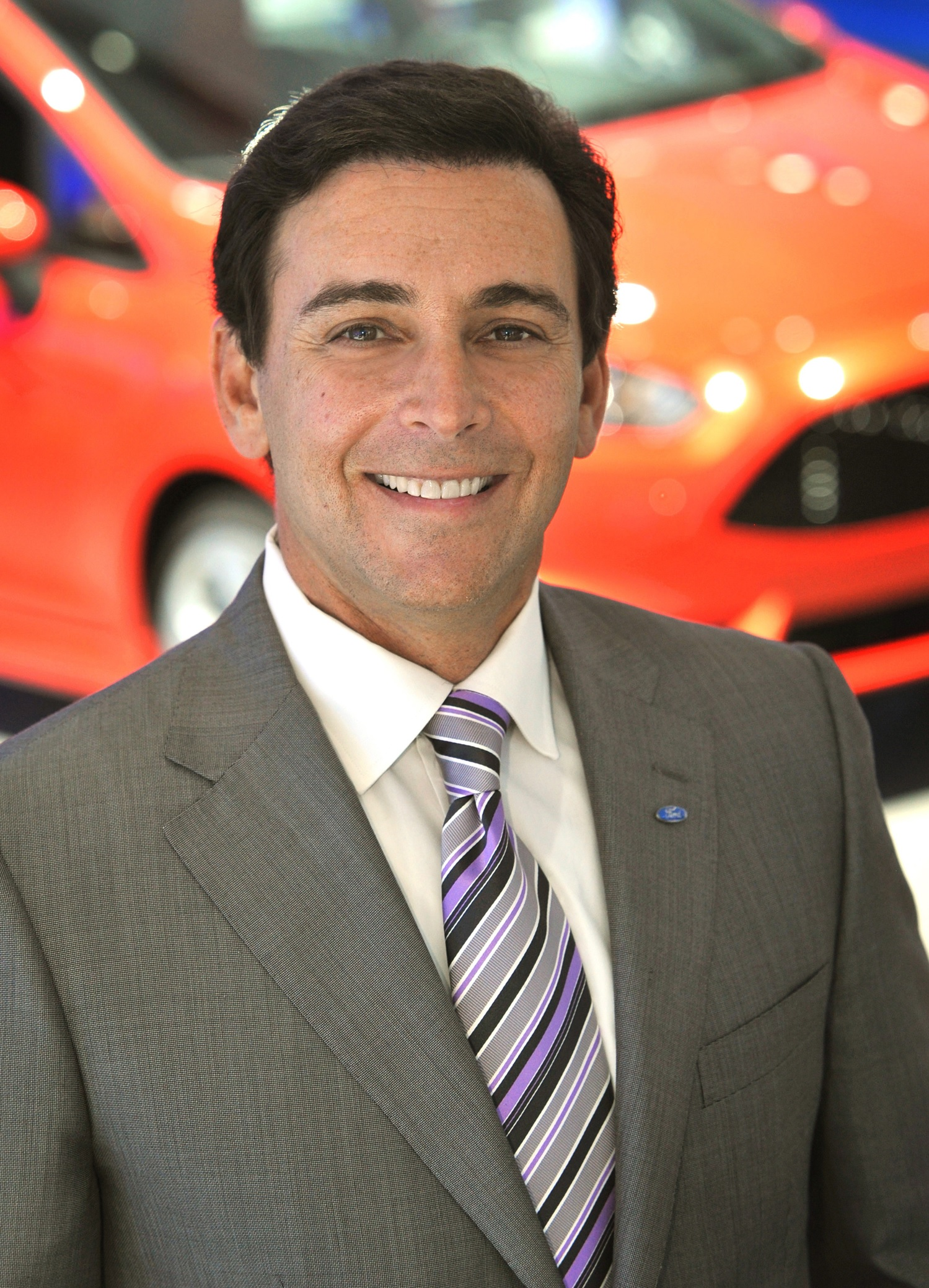 Mark Fields, CEO of Ford Motor Company since 2014.